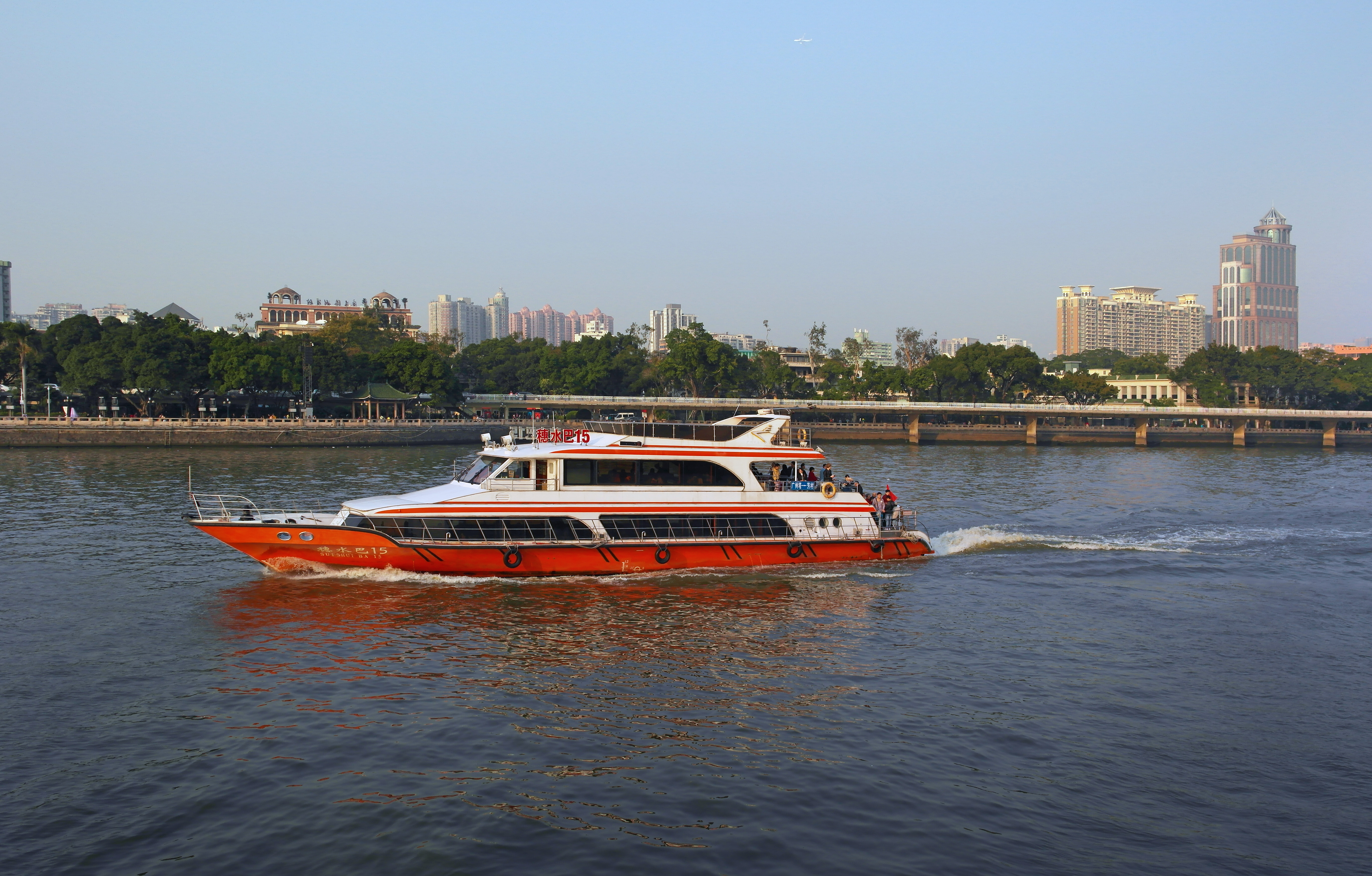 SAMSUNG CSC